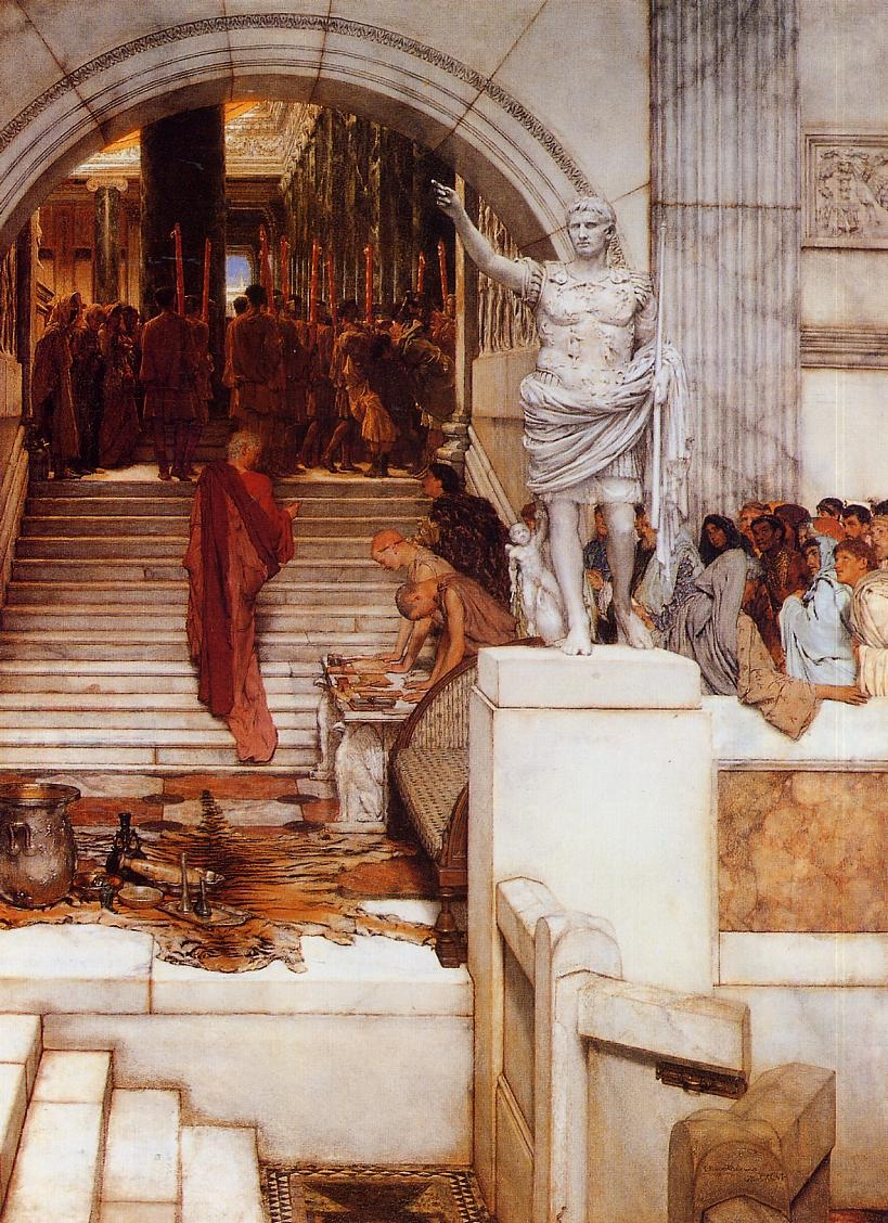 Lawrence Alma-Tadema's art